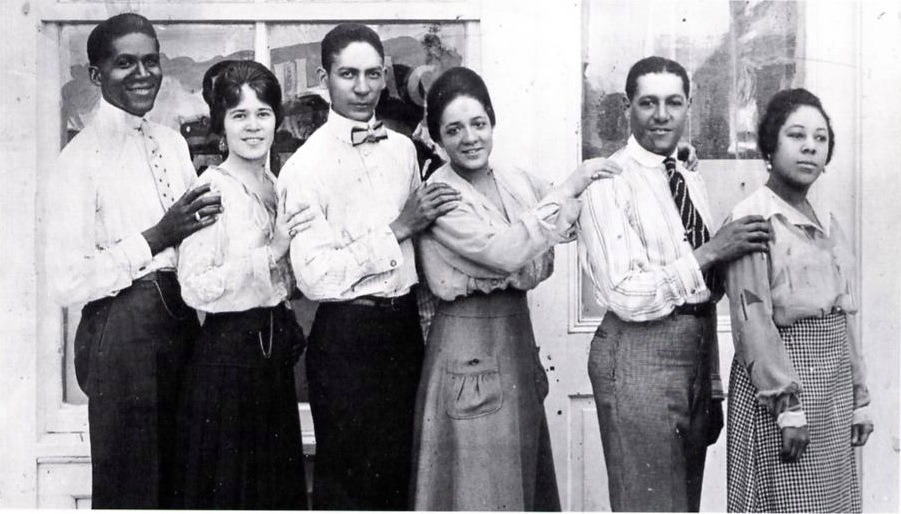 Photograph of musicians and entertainers in Los Angeles, California, at the Cadillac Club, c. 1917 or 1918. From left to right, "Common Sence" Ross, Albertine Pickins, Ferd "Jelly Roll" Morton, Ada "Bricktop" Smith, Eddie Rucker, Mabel Watts.